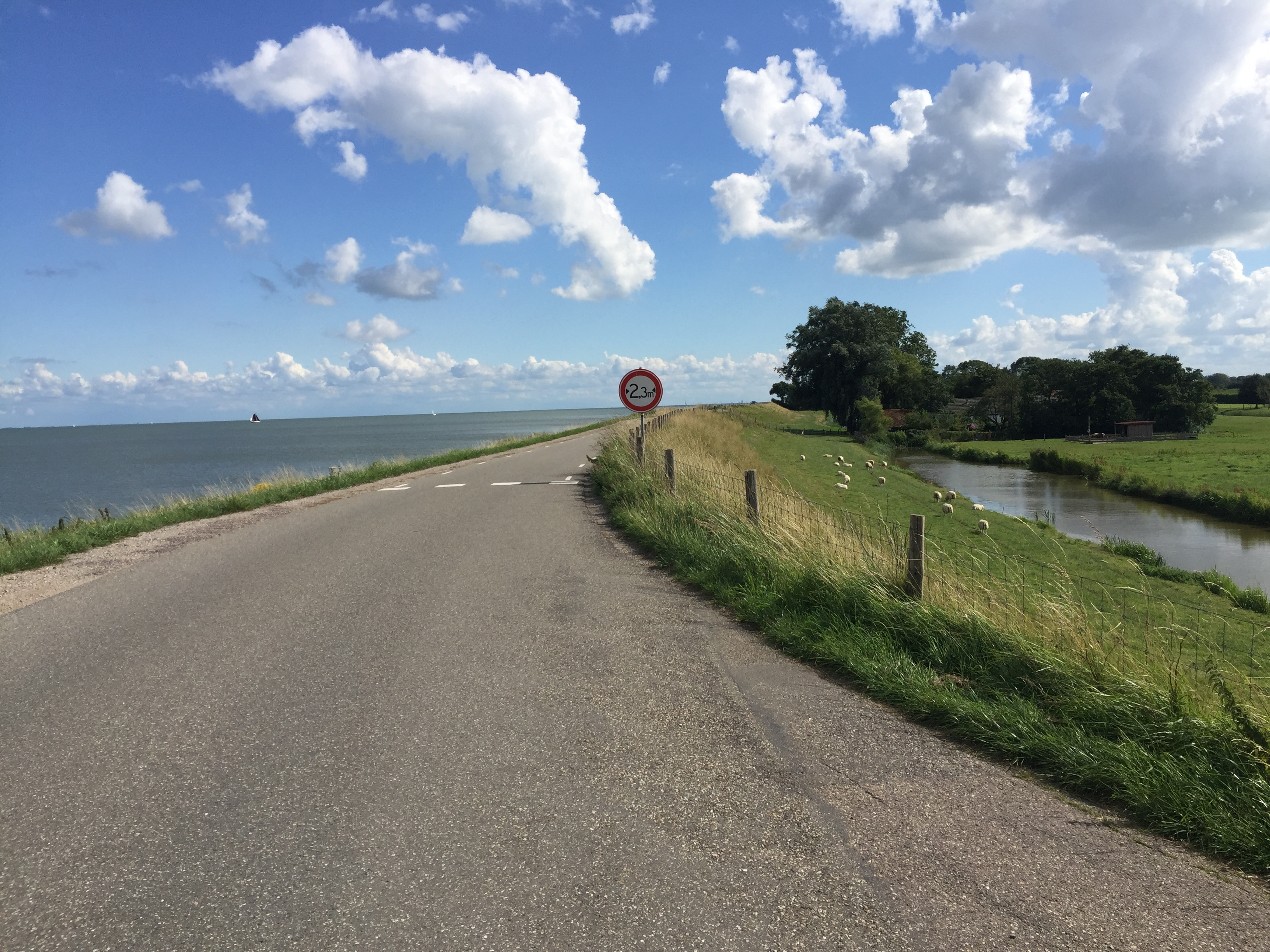 Westfriese Omringdijk. Sheep grazing on the right.